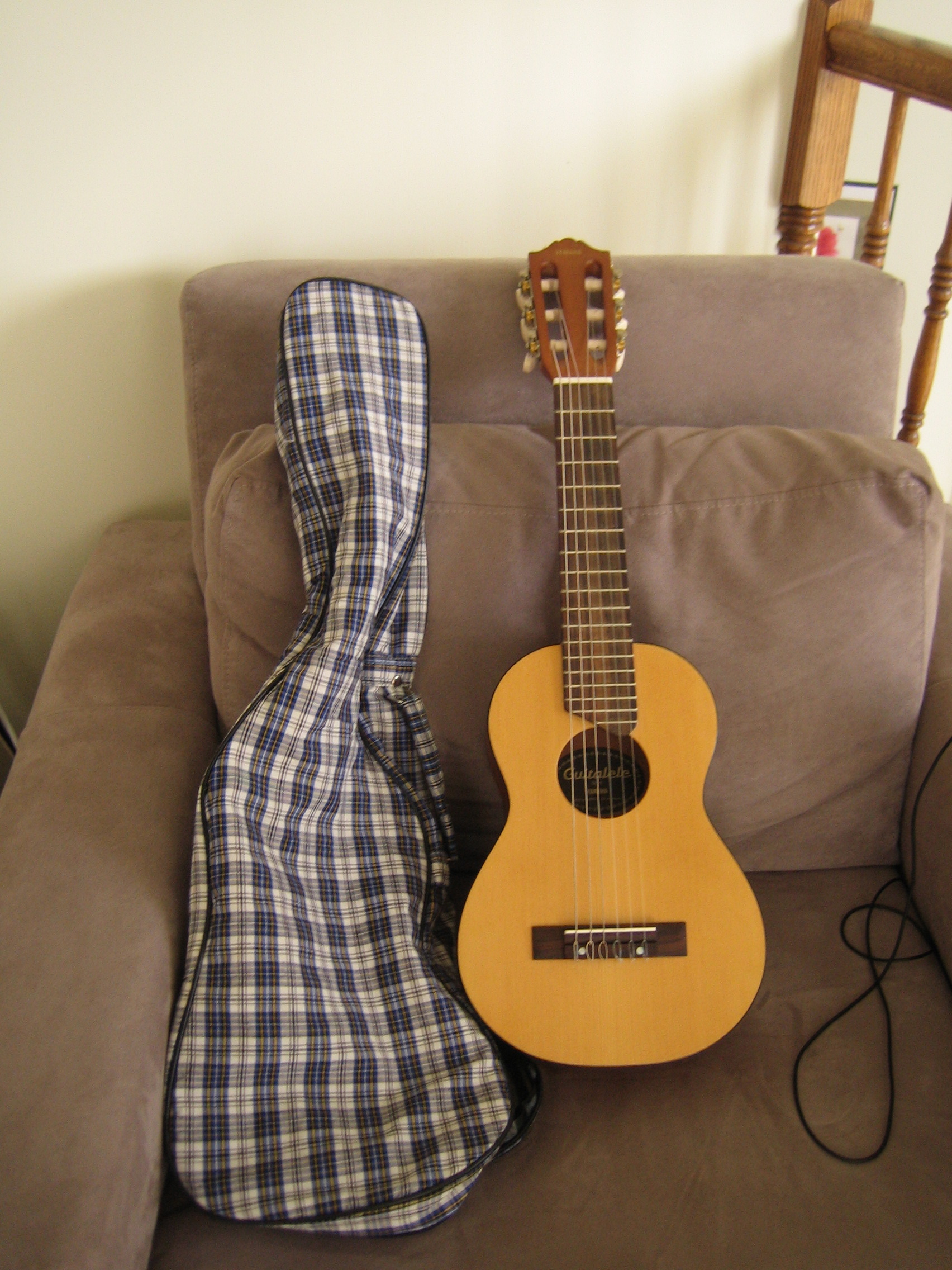 Yamaha Guitalele Flickr album: When the Muse Strikes She strikes you with the back of her hand to wake you from the doldrums of life.Be from your mind to the creative pens at hand.Listen with your heart and see with reflection.